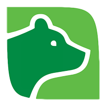 Logo of Plitvice Lakes National Park, Croatia. Public body of the Republic of Croatia.